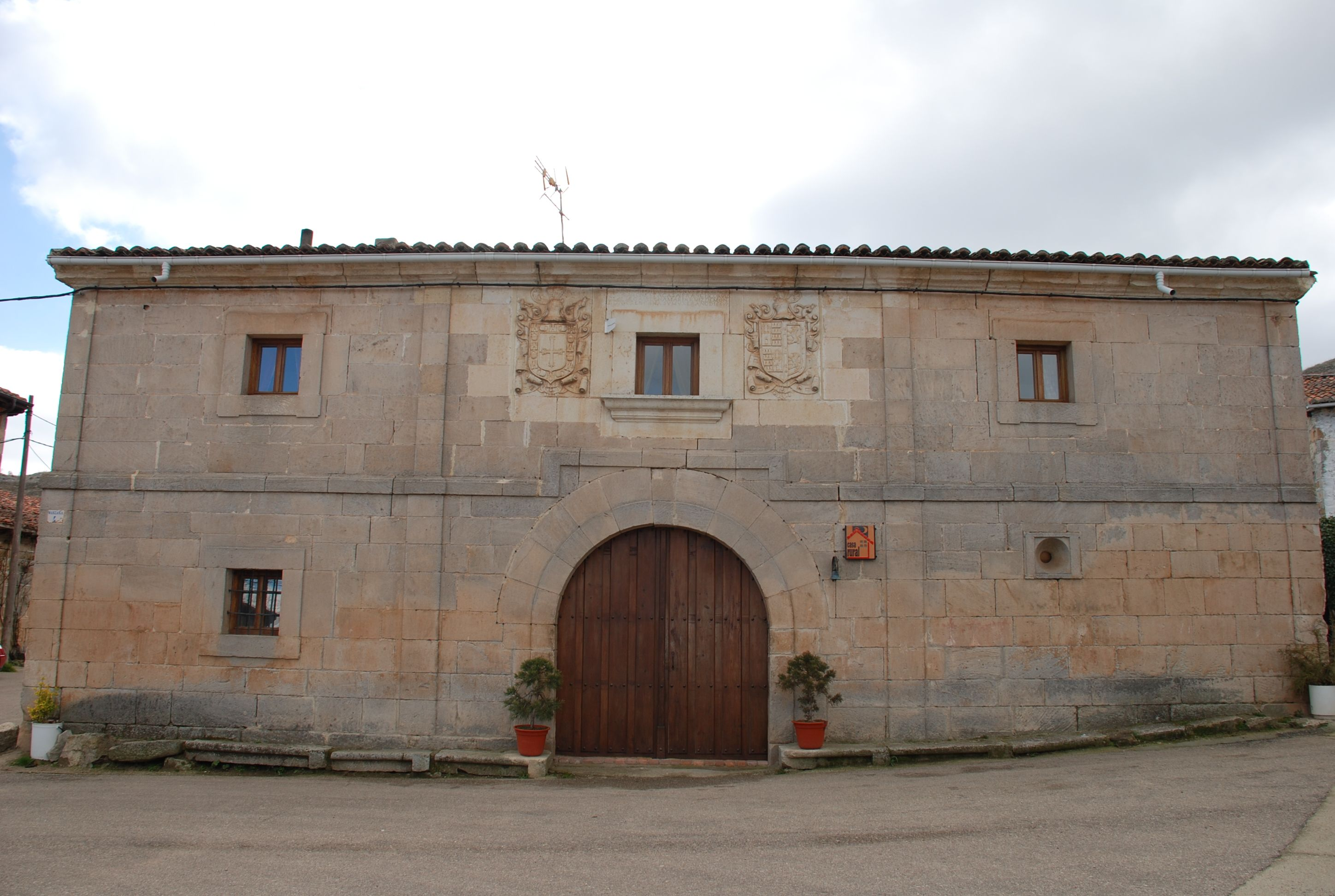 Manor house in Barrio de Santa María, Aguilar de Campoo (Palencia, Castile and León).